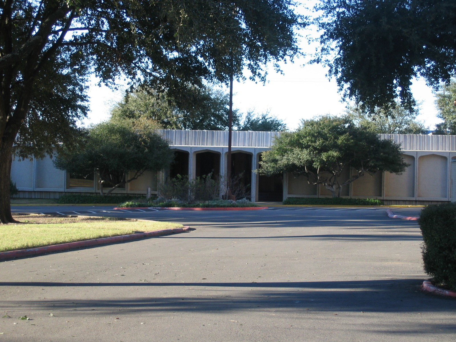 This is the diocesan house for the Diocese of Dallas (Episcopal). Its cathedral is the Cathedral Church of Saint Matthew. The diocesan house and church are on the former campus of Saint Mary's Episcopal College for Women (1889 - 1929).